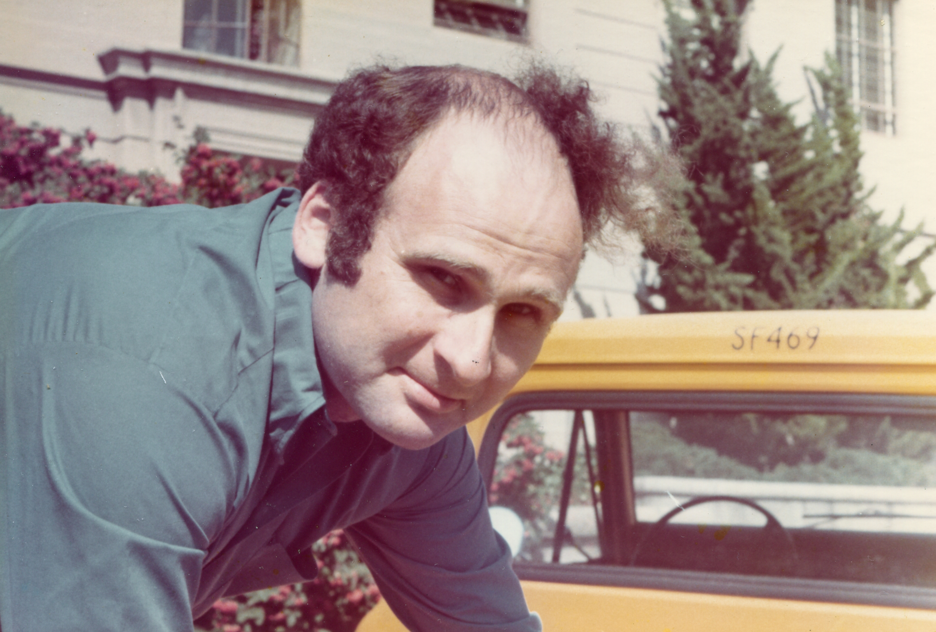 Israeli-born mathematician Menachem Magidor at Berkeley, California in 1973; photo print scanned at 800 dpi